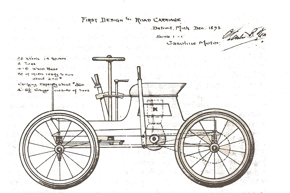 King 1893 car design for Road Carriage